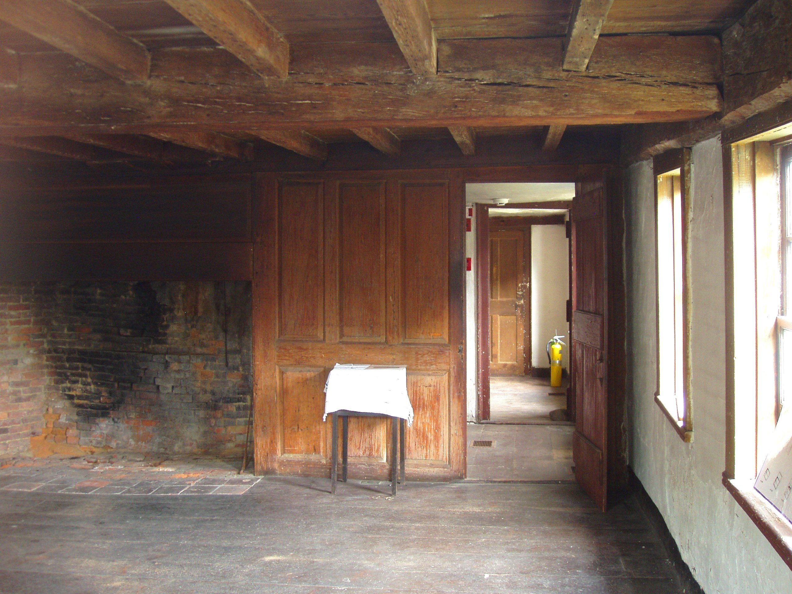 Swett-Ilsley House - Newbury, Massachusetts. Interior view, taken through the window. Photograph taken by me, September 2005.